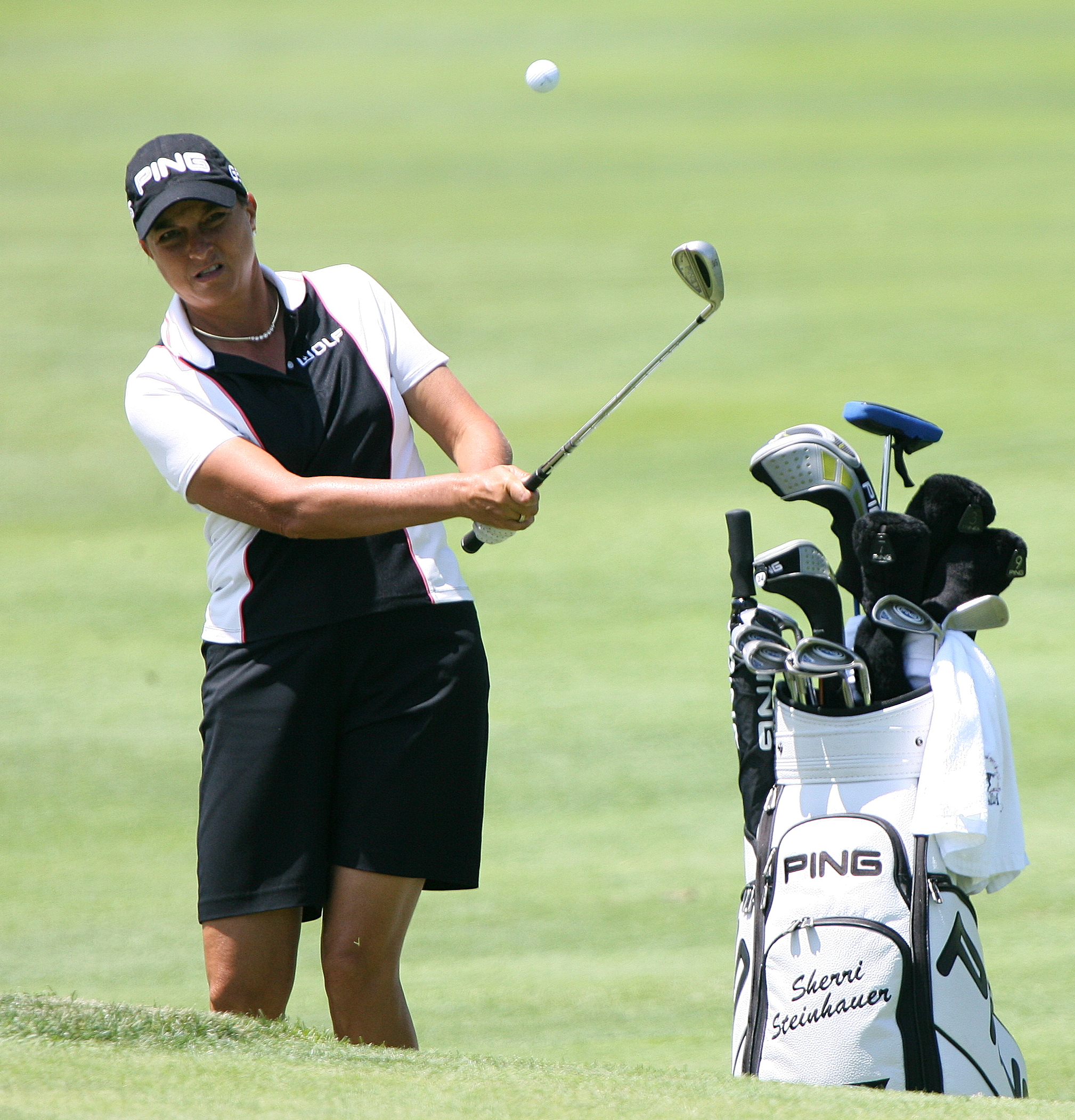 HAVRE DE GRACE, MD - JUNE 06: Sherri Steinhauer (USA) during practice before 2007 LPGA Championship held at Bulle Rock Golf Course, on June 6, 2007 in Havre de Grace, Maryland. (Photo by Keith Allison)